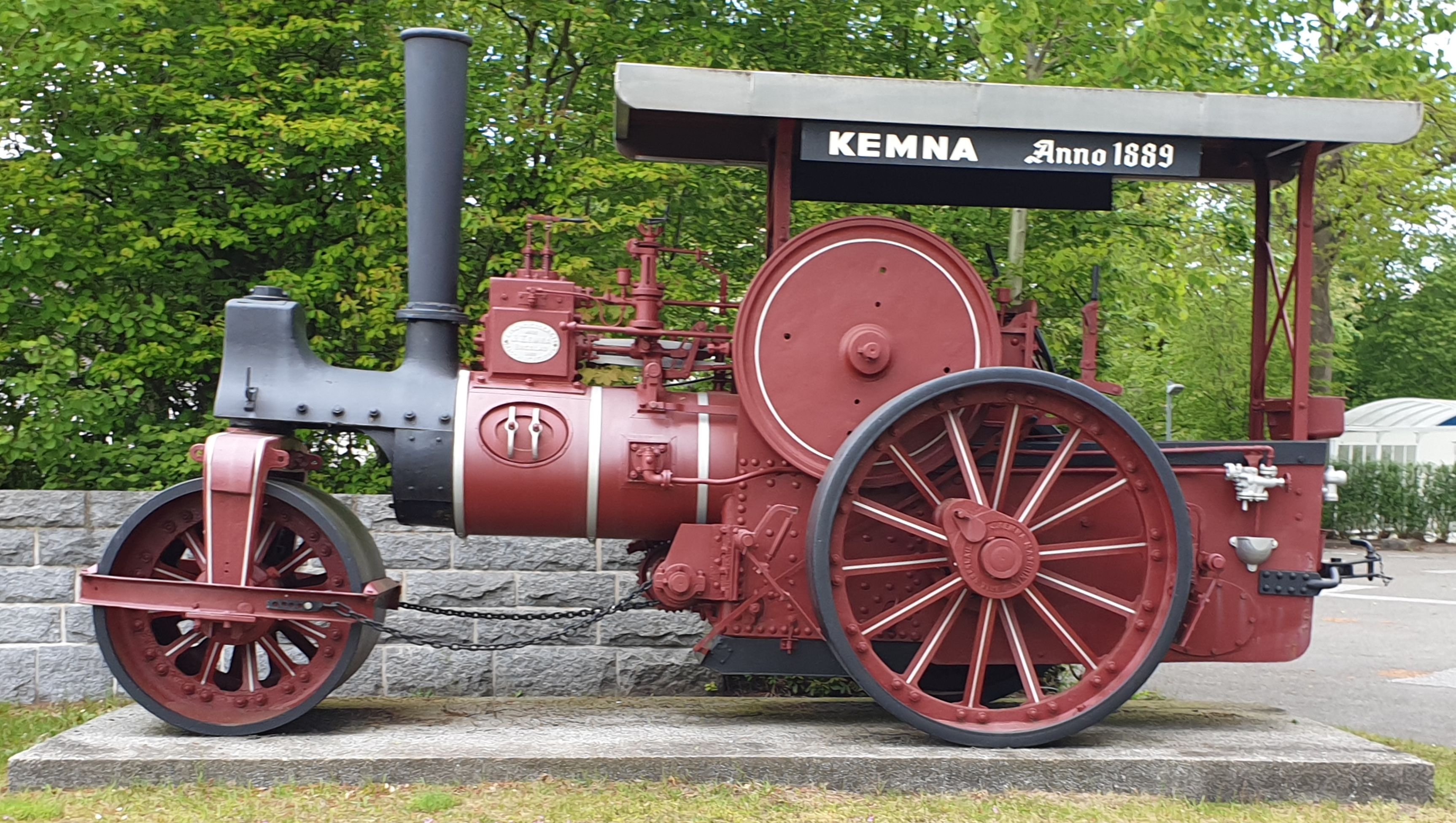 Steam roller build by Kemna, in front of the Kemna Office building in Pinneberg, SH, Germany